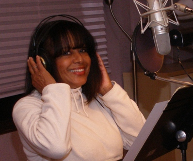 Scherrie Payne in the studio